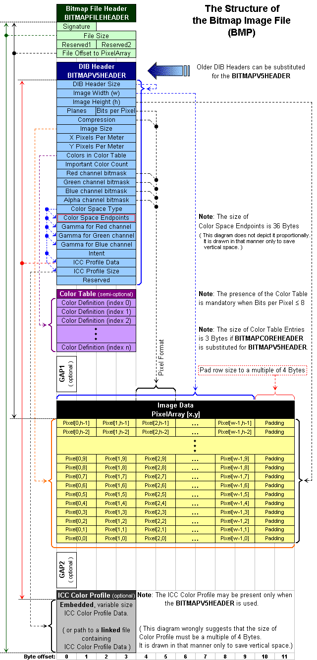 The Structure of the Bitmap Image File (BMP)